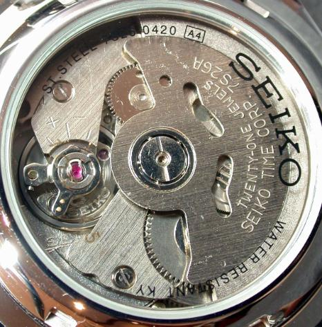 Automatic Seiko 7s26 movement